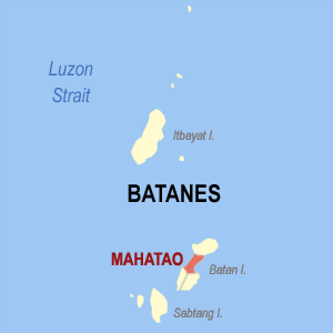 Map of Batanes showing the location of Mahatao